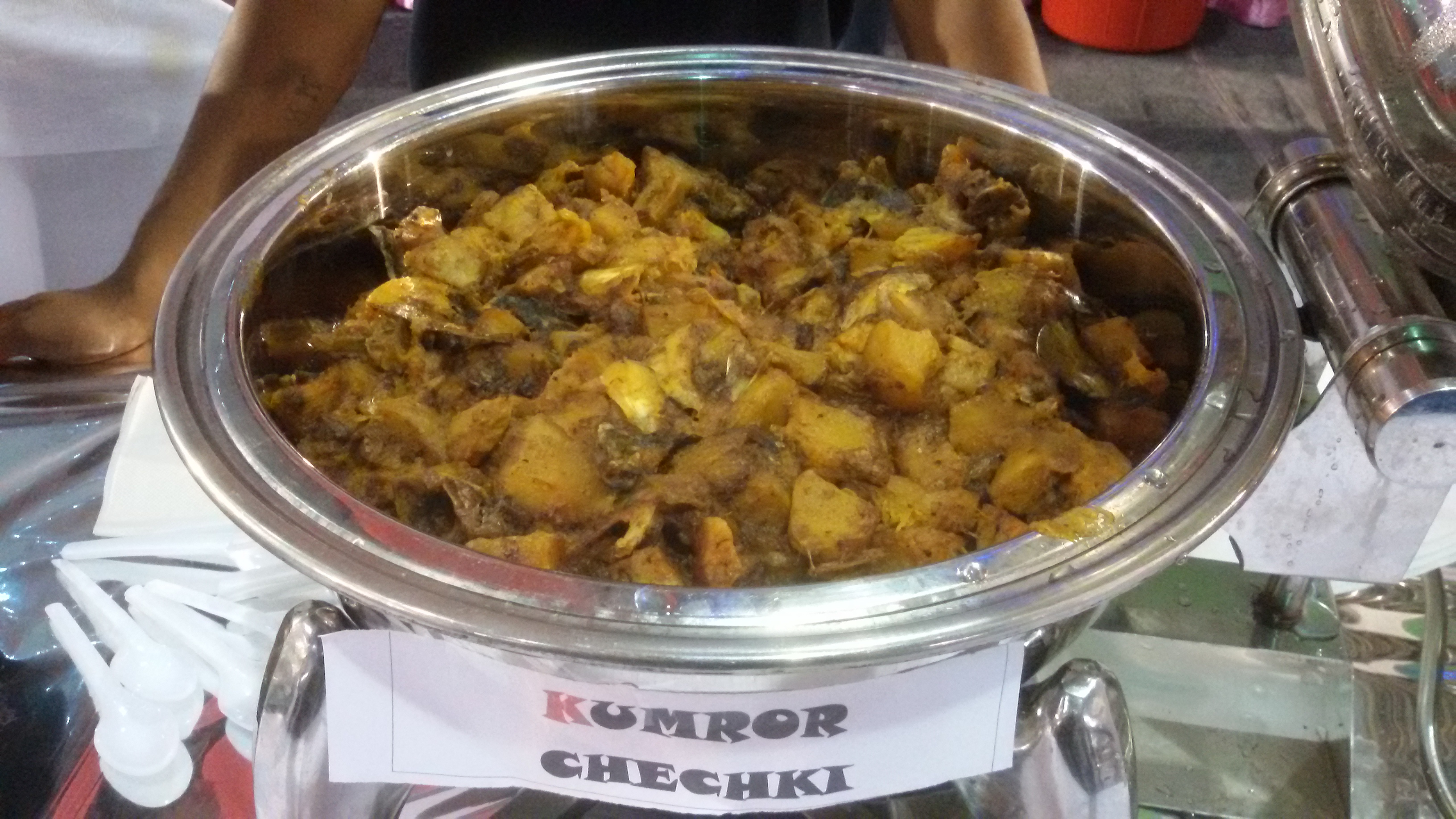 Photograph of kumror chhenchki, a popular dish of West Bengal. Chhenchki is a type of dish containing sauteed vegetables. In kumror chhenchki the main vegetable in pumpkin.